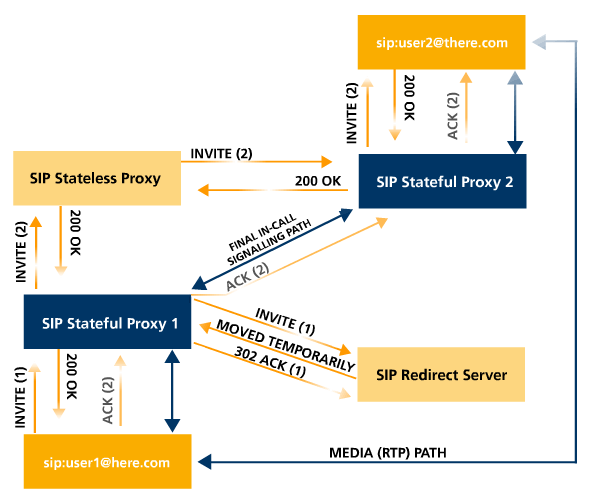 Selfmade compilation from